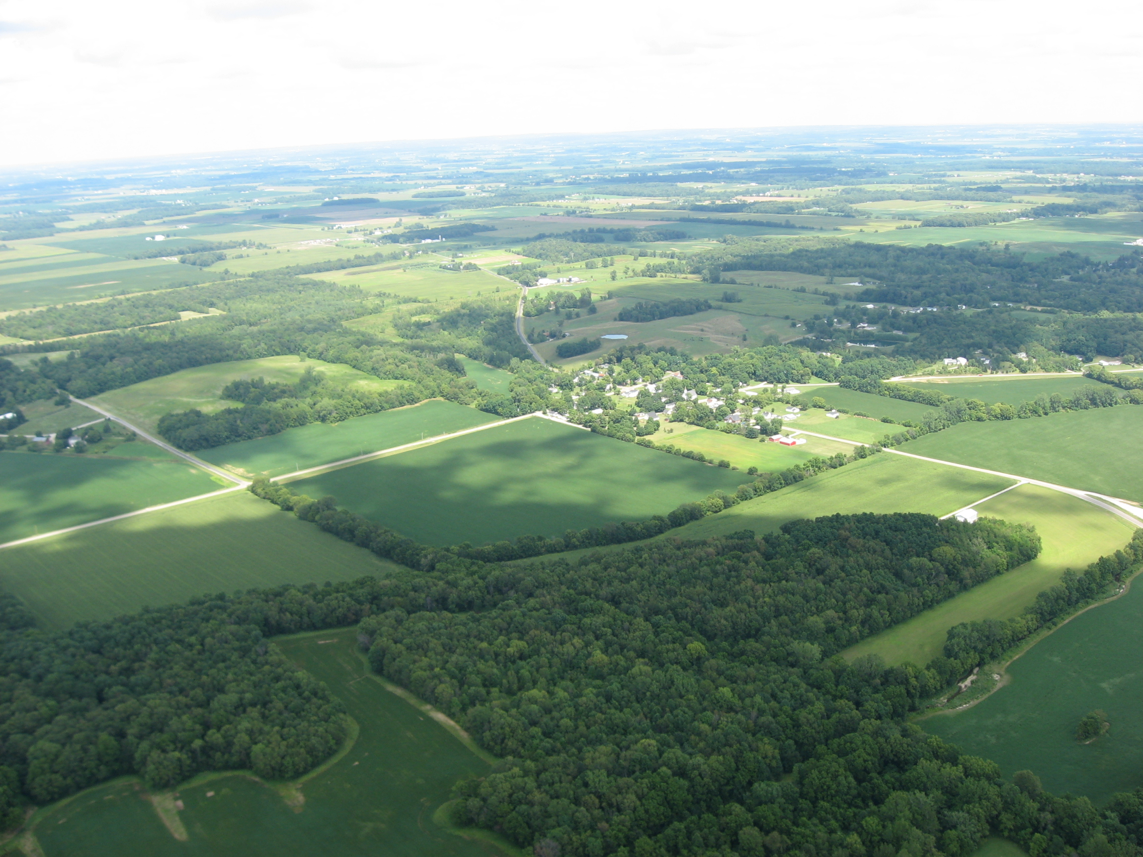 Aerial view of countryside around Millerstown, a small community in Champaign County, Ohio, United States. Picture taken from a Diamond Eclipse light airplane at an altitude of 2,380 feet MSL and a bearing of approximately 35º.